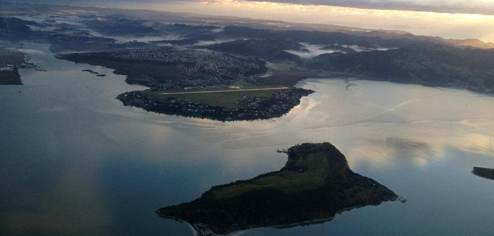 Matakohe Island in Whangarei harbour